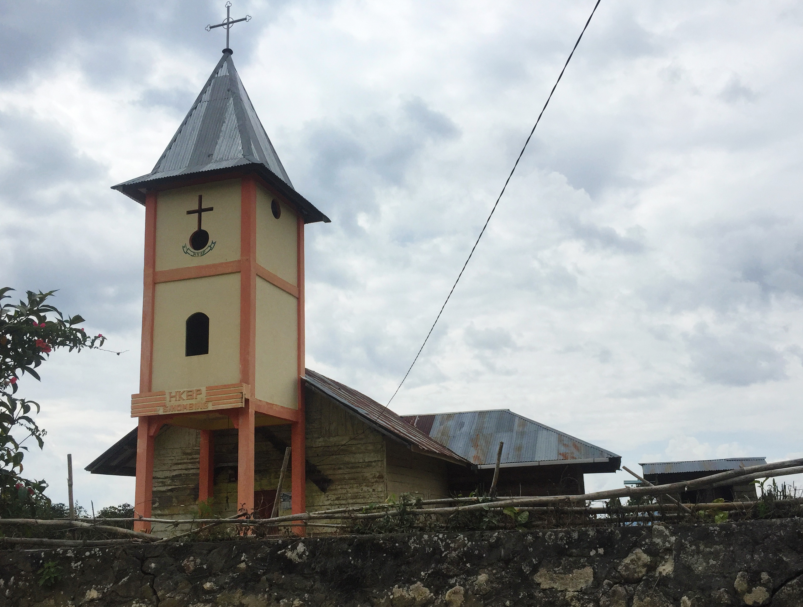 HKBP Sihombing, Church in Simanindo, Samosir